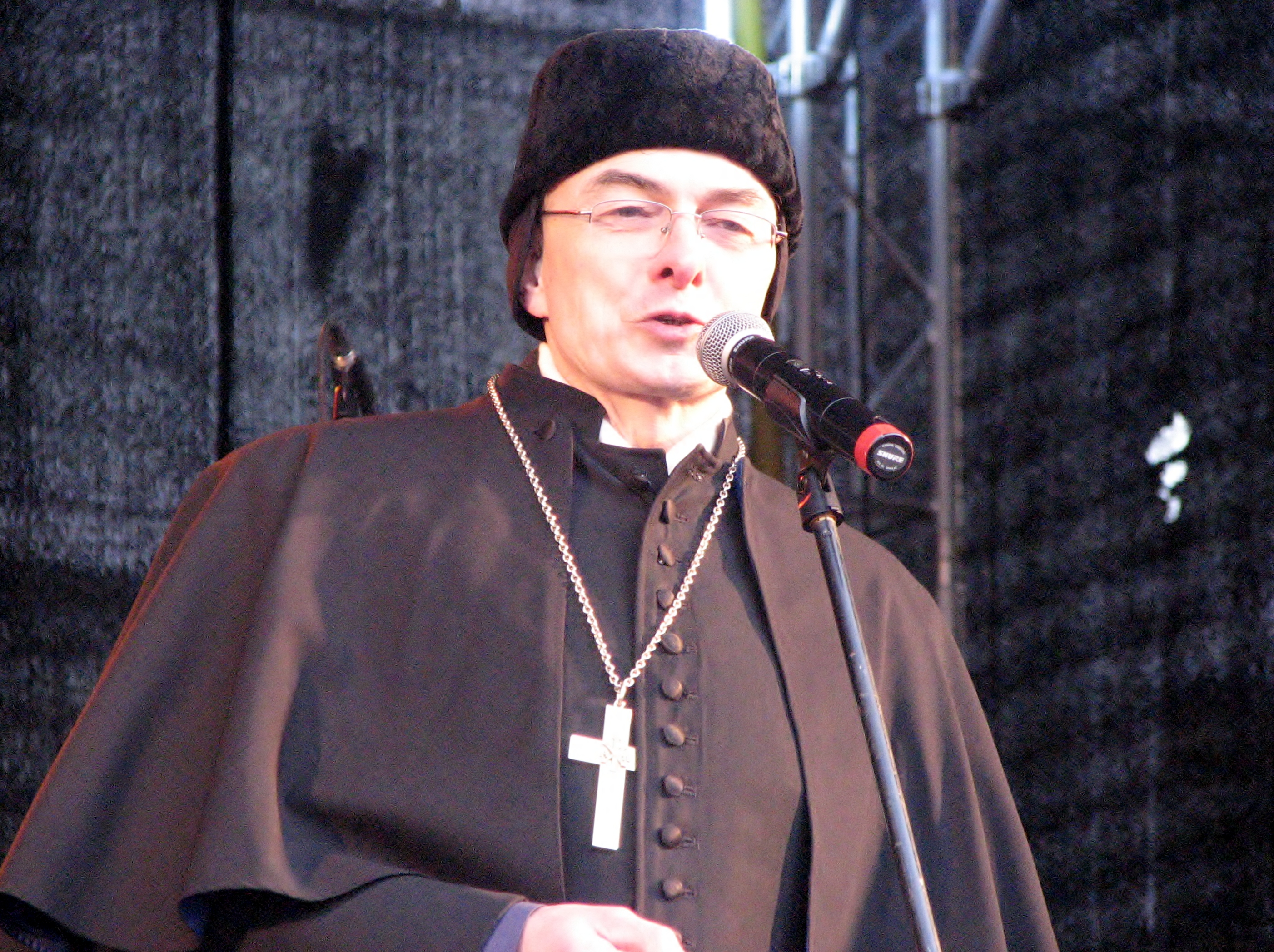 Estonian cleric Jaan Tammsalu on the Ist advent 2012